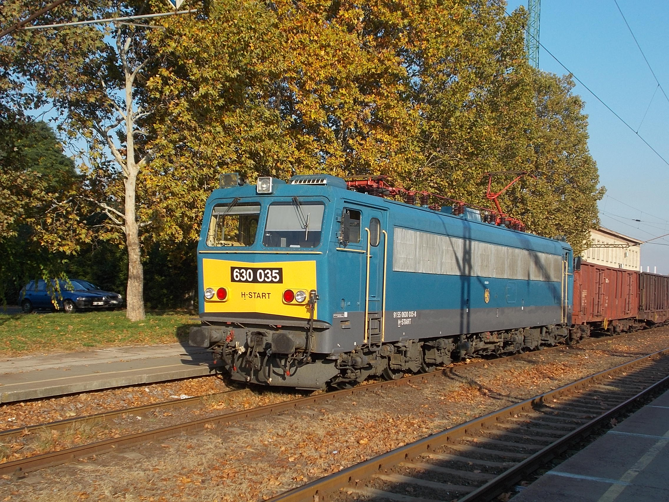 Dunaújváros railway station. 630 035 - Kandó Kálmán Square, Dunaújváros, Fejér County, Hungary.